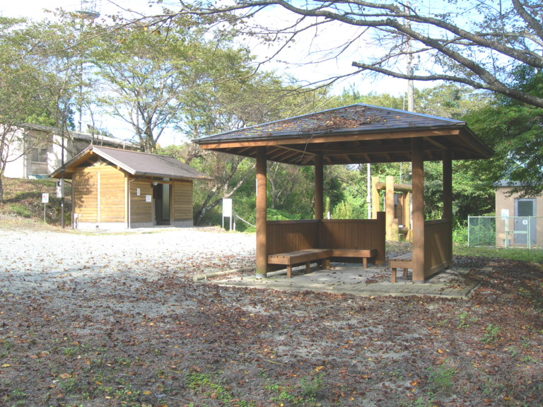 Misedani-dam at Odai town, Taki District, Mie Pref., Japan.